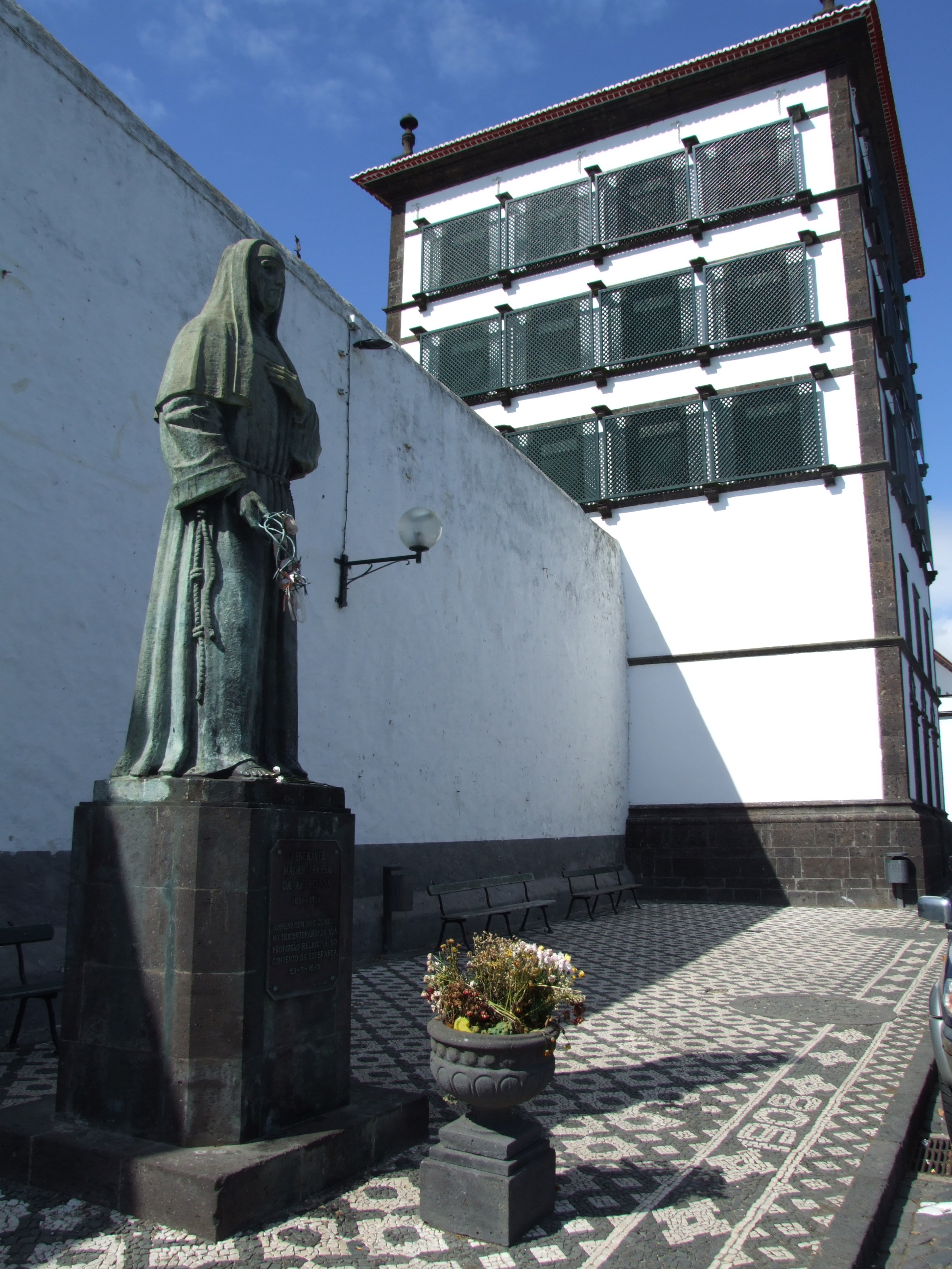 Statue of Mother Teresa da Anunciada, in front of the Convent of Nossa Senhora da Esperança, São José, Ponta Delgada, São Miguel (Azores), Portugal